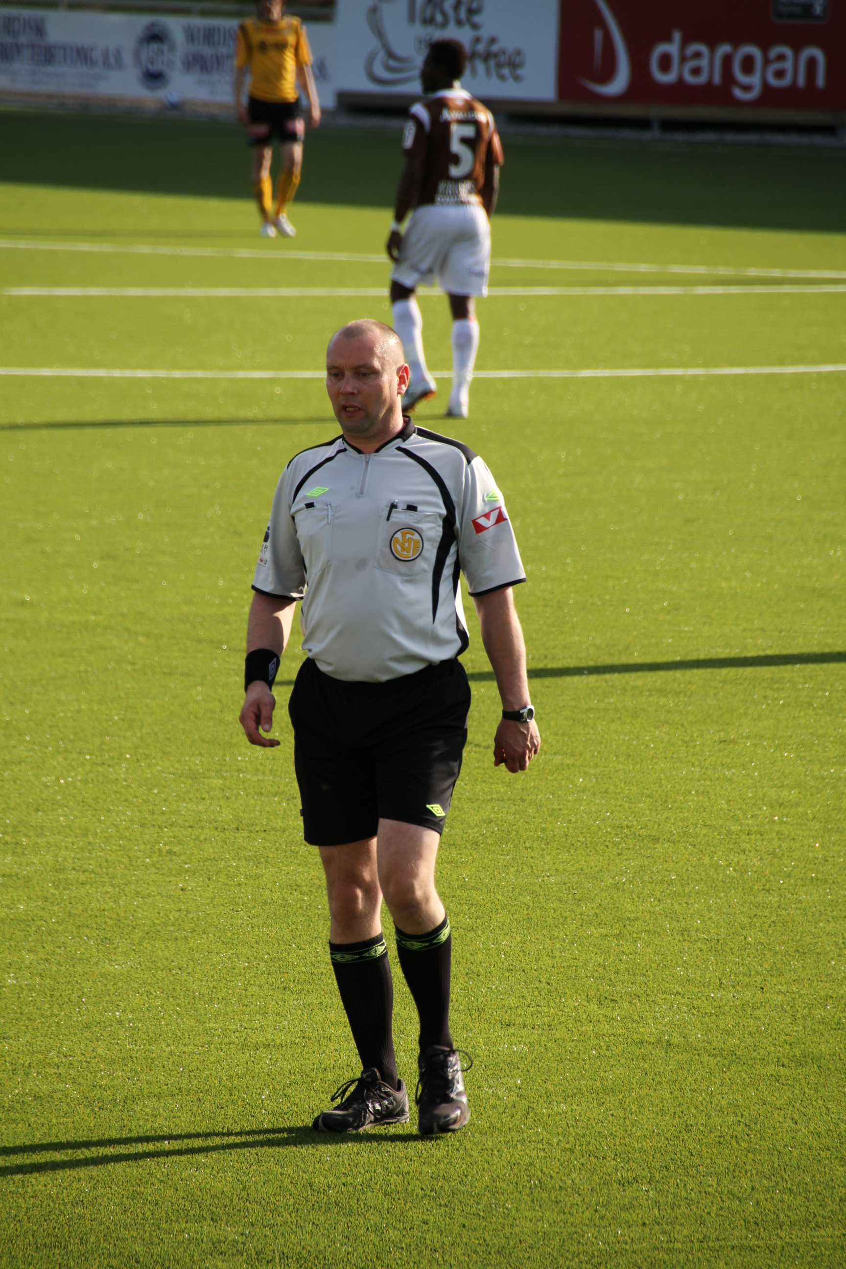 Football referee mr Kjetil Thorsø Hansen, representing Charlottenlund SK (Trondheim). Here in a match between IK Start and Mjøndalen IF (Adeccoligaen 2012, Norway)